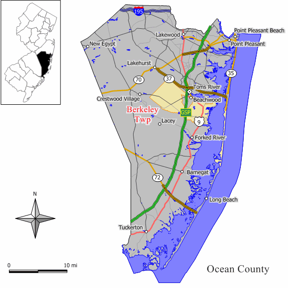 Source: Jim Irwin Original work by Jim Irwin, December 2005.